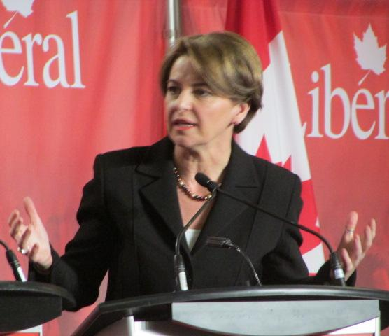 Liberal Party of Canada leadership candidate Martha Hall Findlay